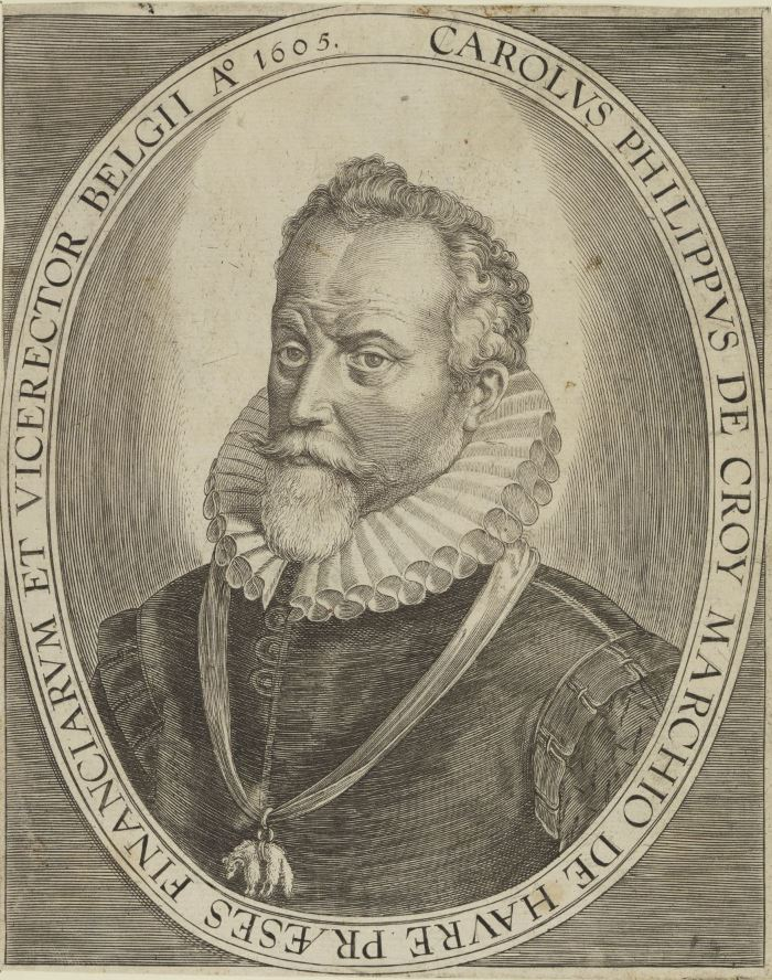 Portrait of Charles Philippe de Croy from 1605 (Herzog Anton Ulrich-Museum, inv. P-Slg AB 3.801)